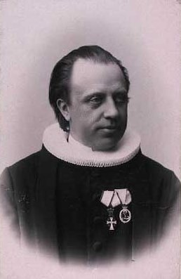 Alfred Sveistrup Poulsen (1854-1921), Danish bishop of Viborg